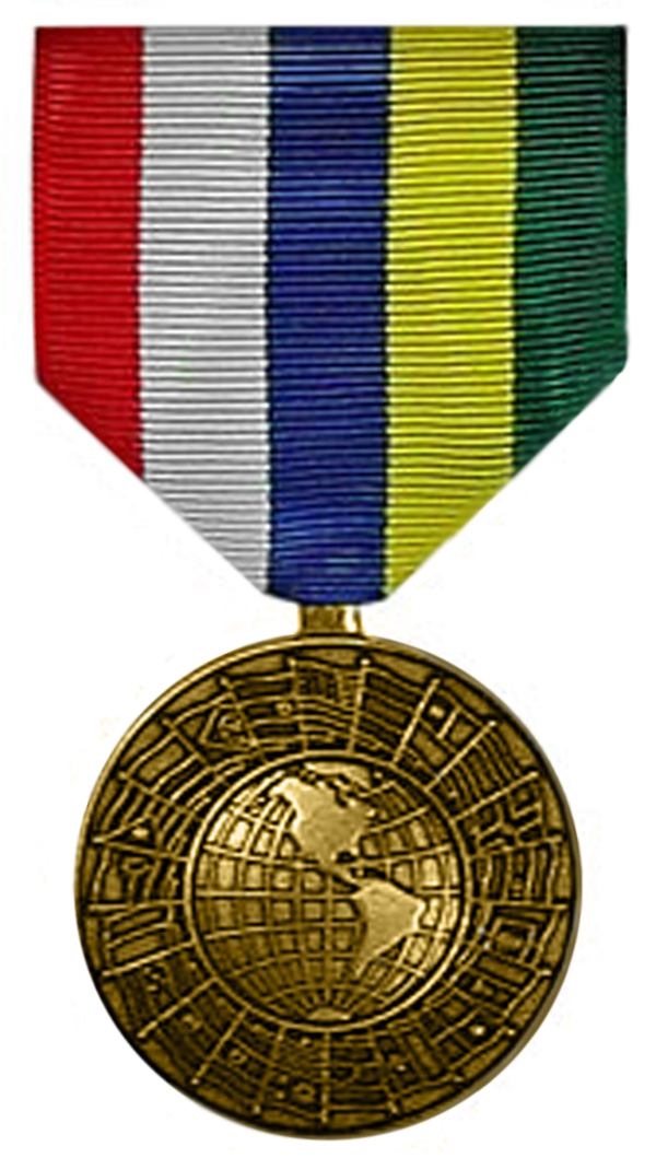 Inter-American Defense Board Medal created with Photoshop.